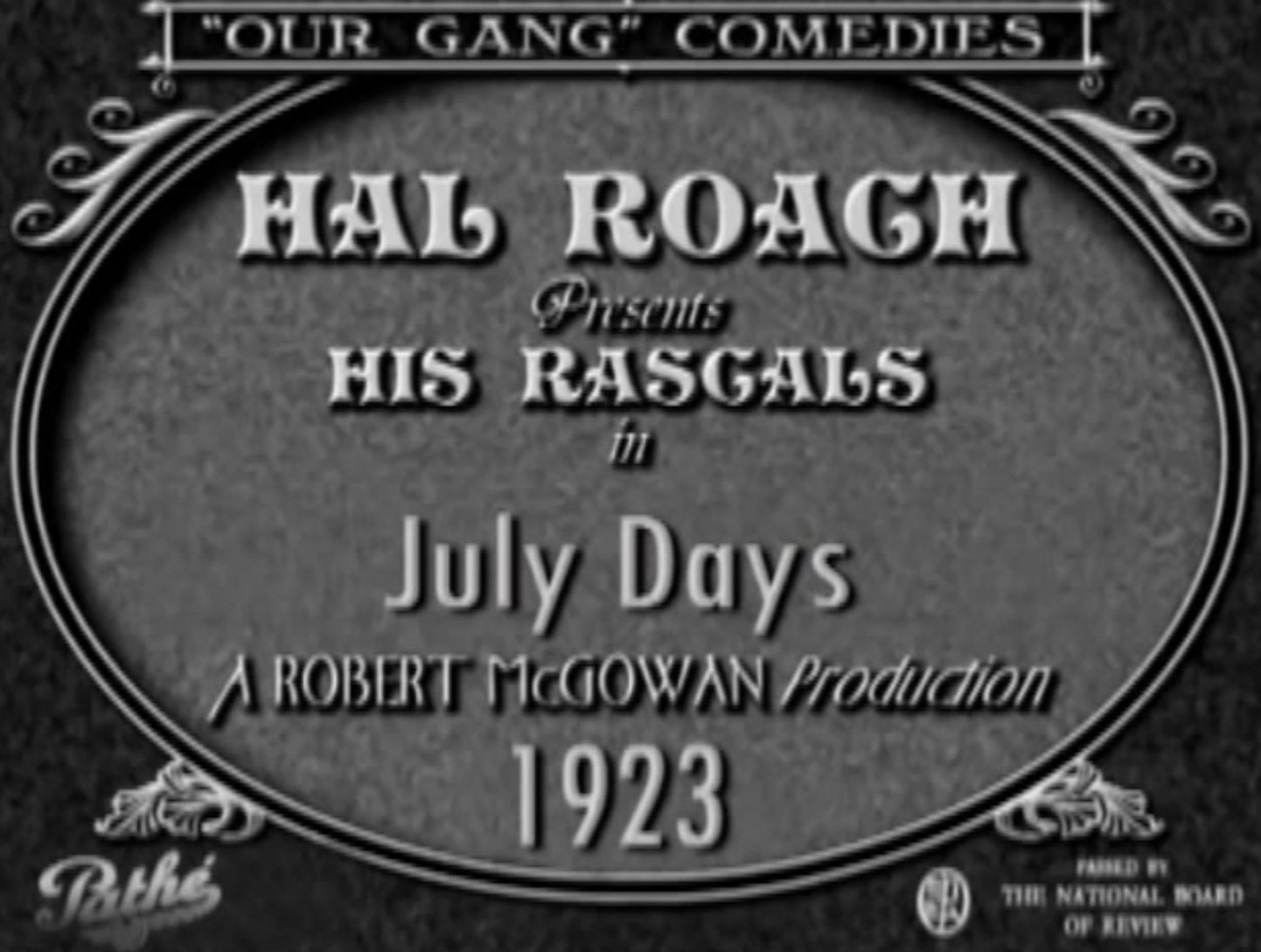 Title card for Our Gang film July Days.